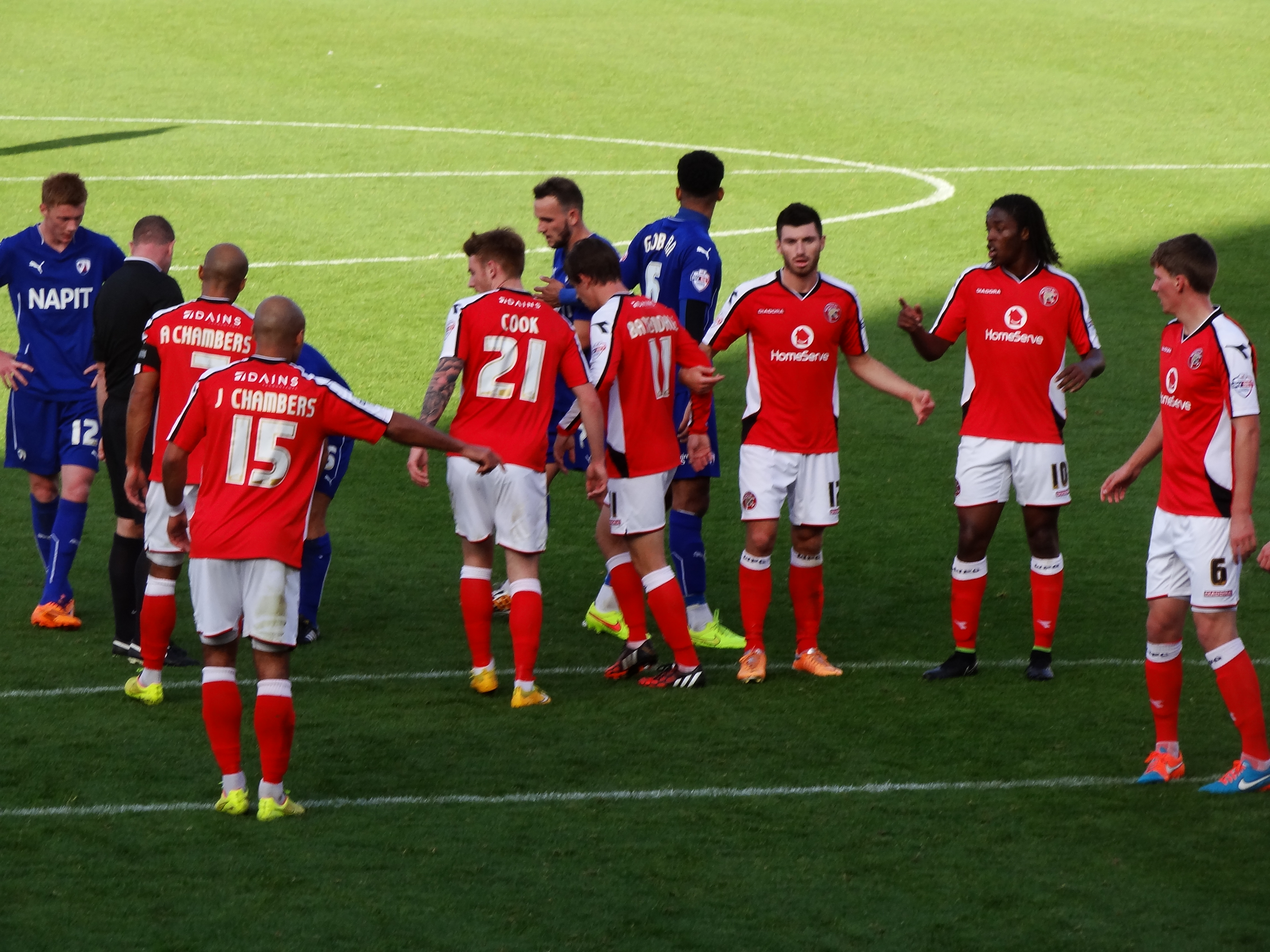 Walsall v Chesterfield, League One, 25 October 2014